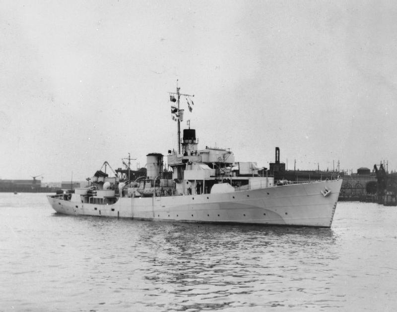 The Canadian Flower class corvette HMCS Mimico (K485), date unknown.